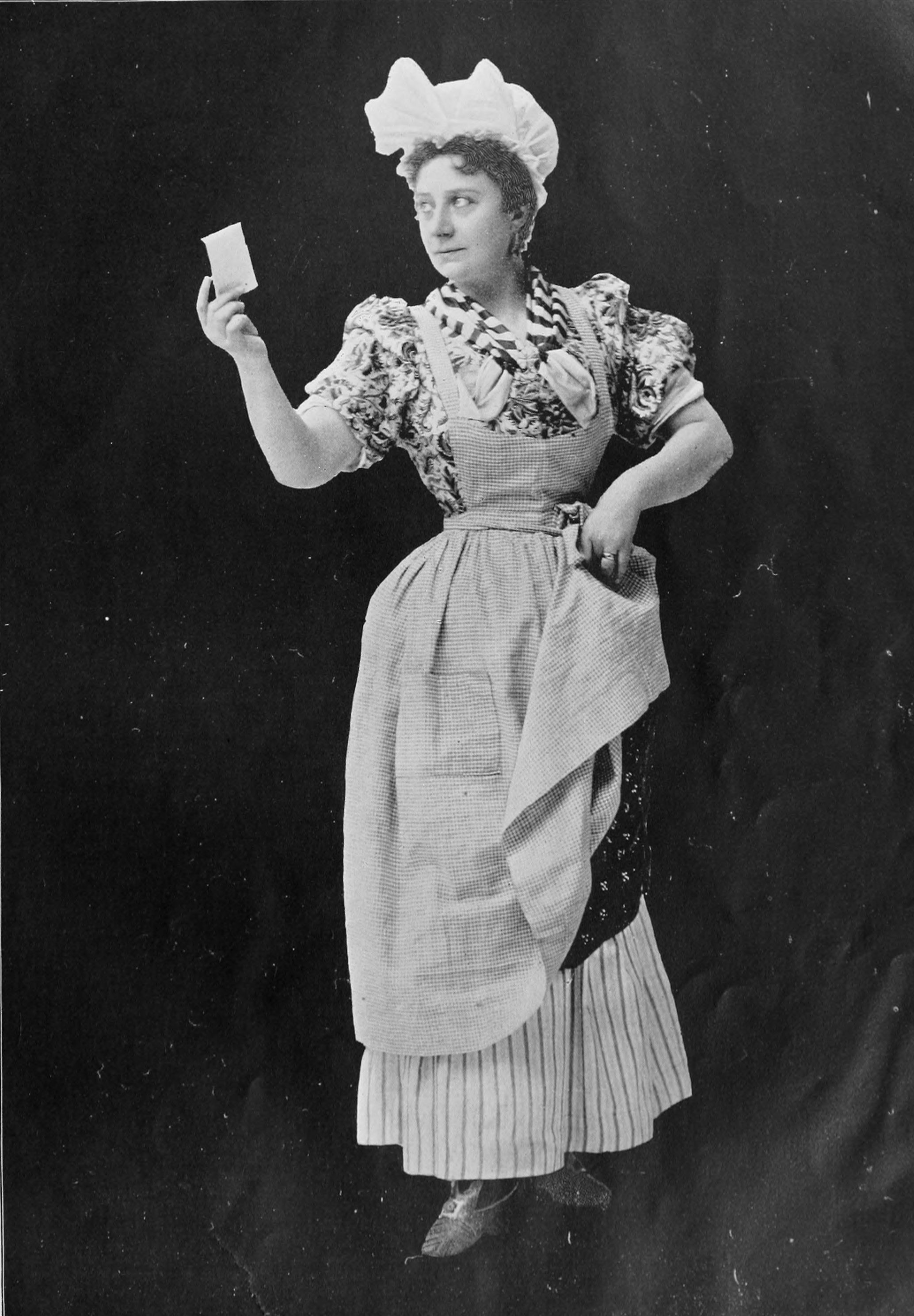 Portrait of actress Mathilde Cottrelly, by Chickering